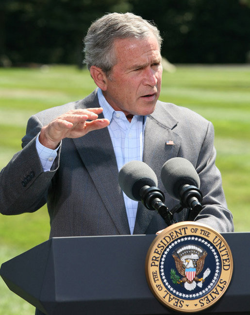 Original description: President George W. Bush gestures as he answers a reporter's question Friday, Aug. 18, 2006 in Camp David, Md., following a meeting with his economic advisors.